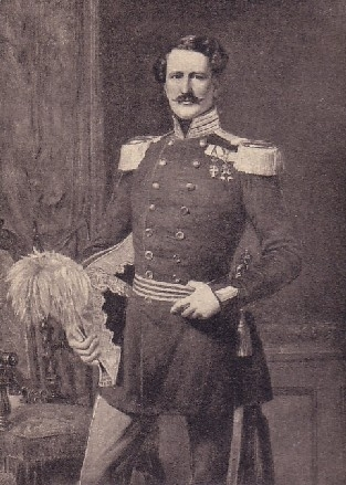 Peter Johansen Neergaard (died 1772)